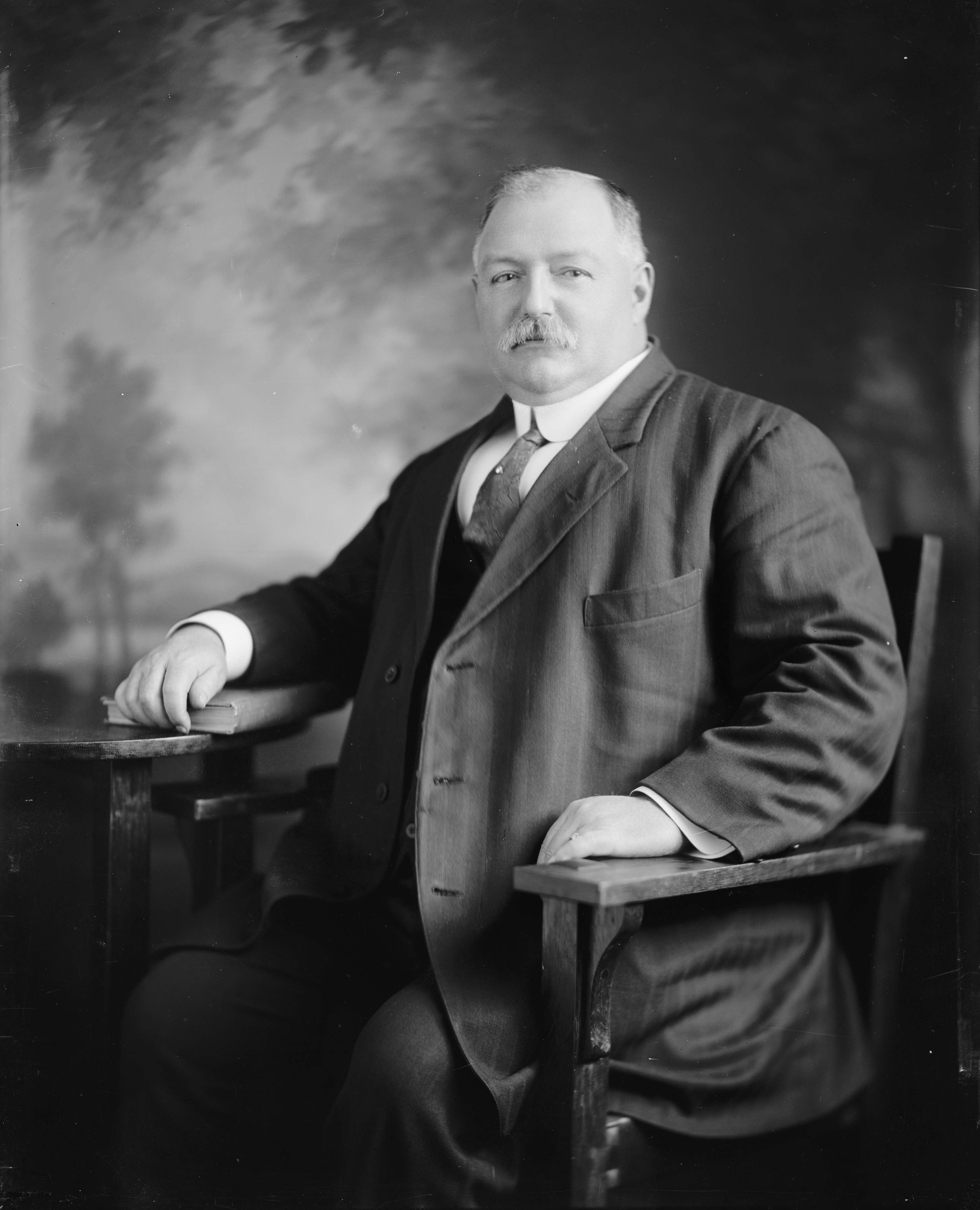 James H. O'Brien, Congressman from New York.